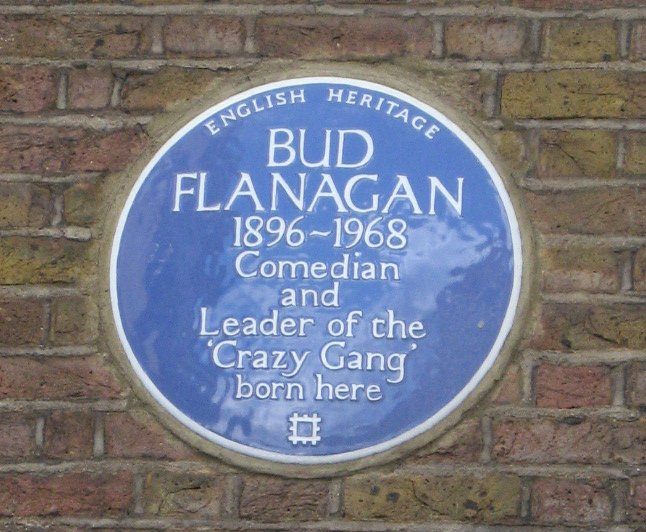 Photograph taken by me March 27 2008